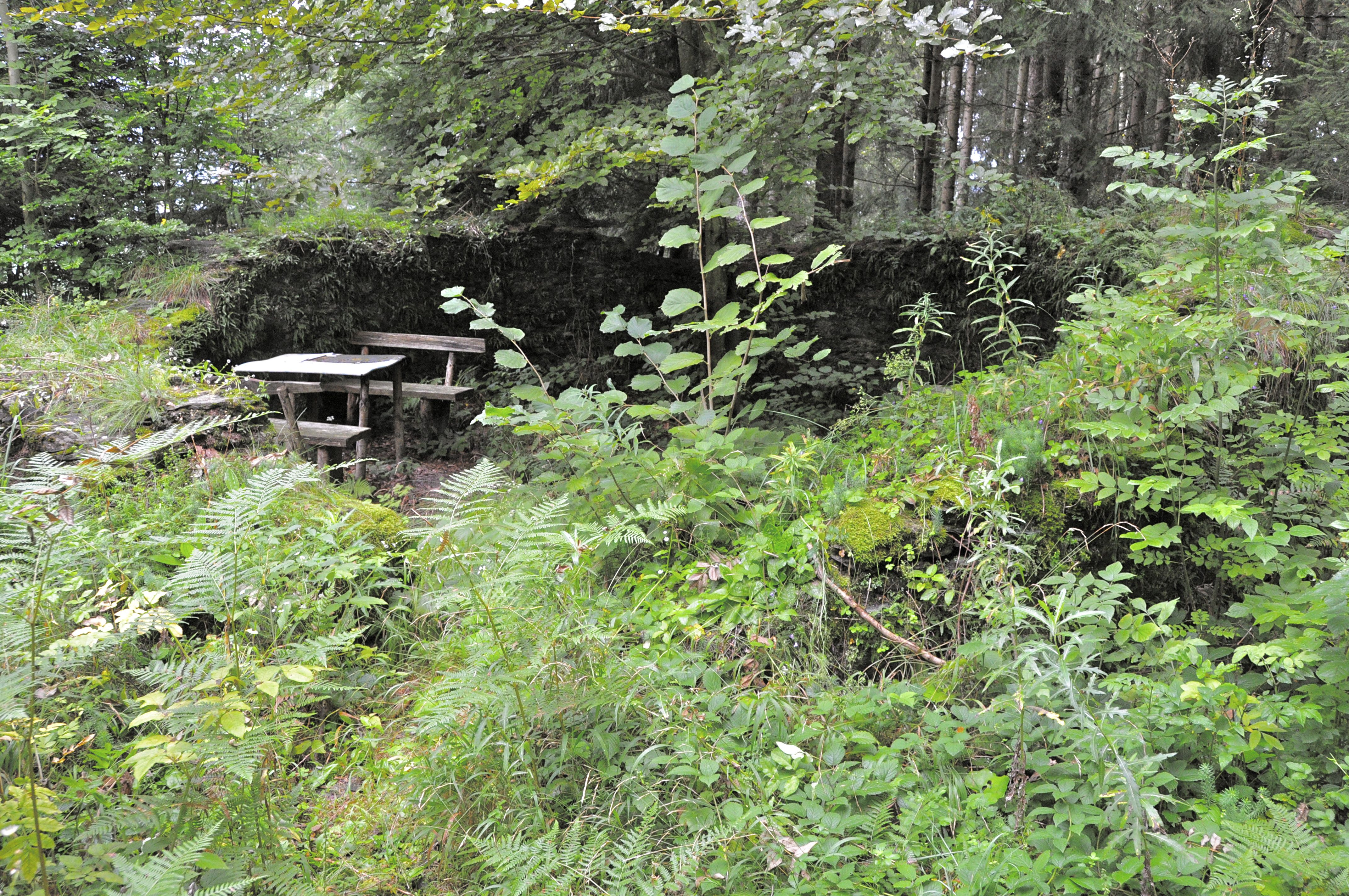 Former criminal court at Sonnrain, municipality Feldkirchen, district Feldkirchen, Carinthia / Austria / EU